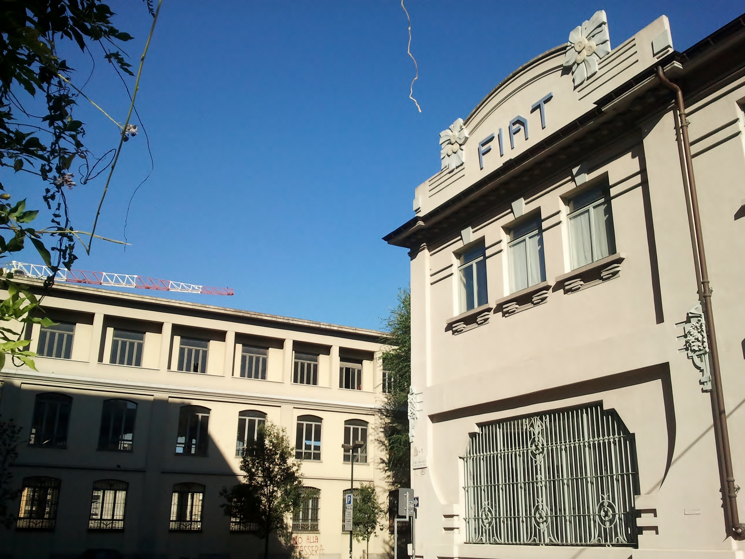 Centro Storico Fiat. Fiat Corso Dante Plant. Torino. Italy